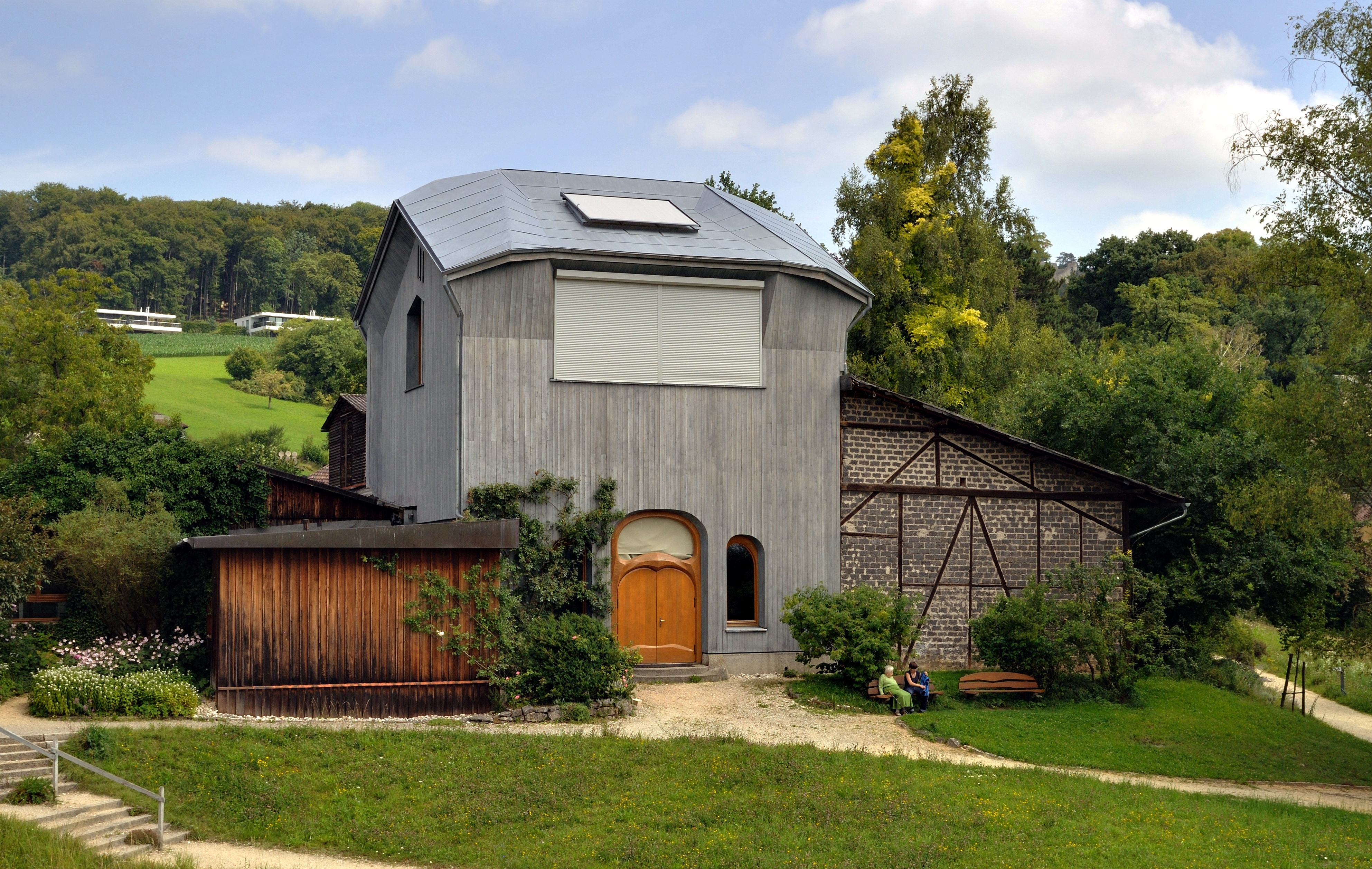 Goetheanum surroundings: Atelier